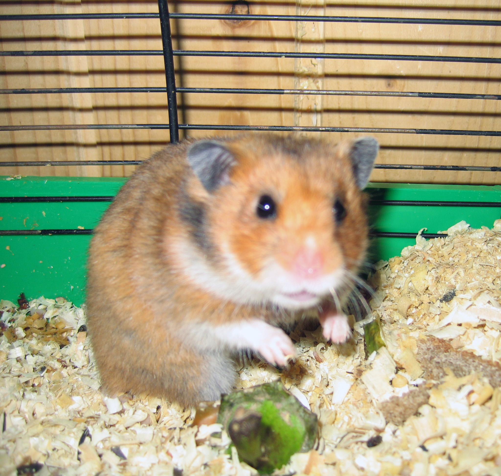 Pet Hamster